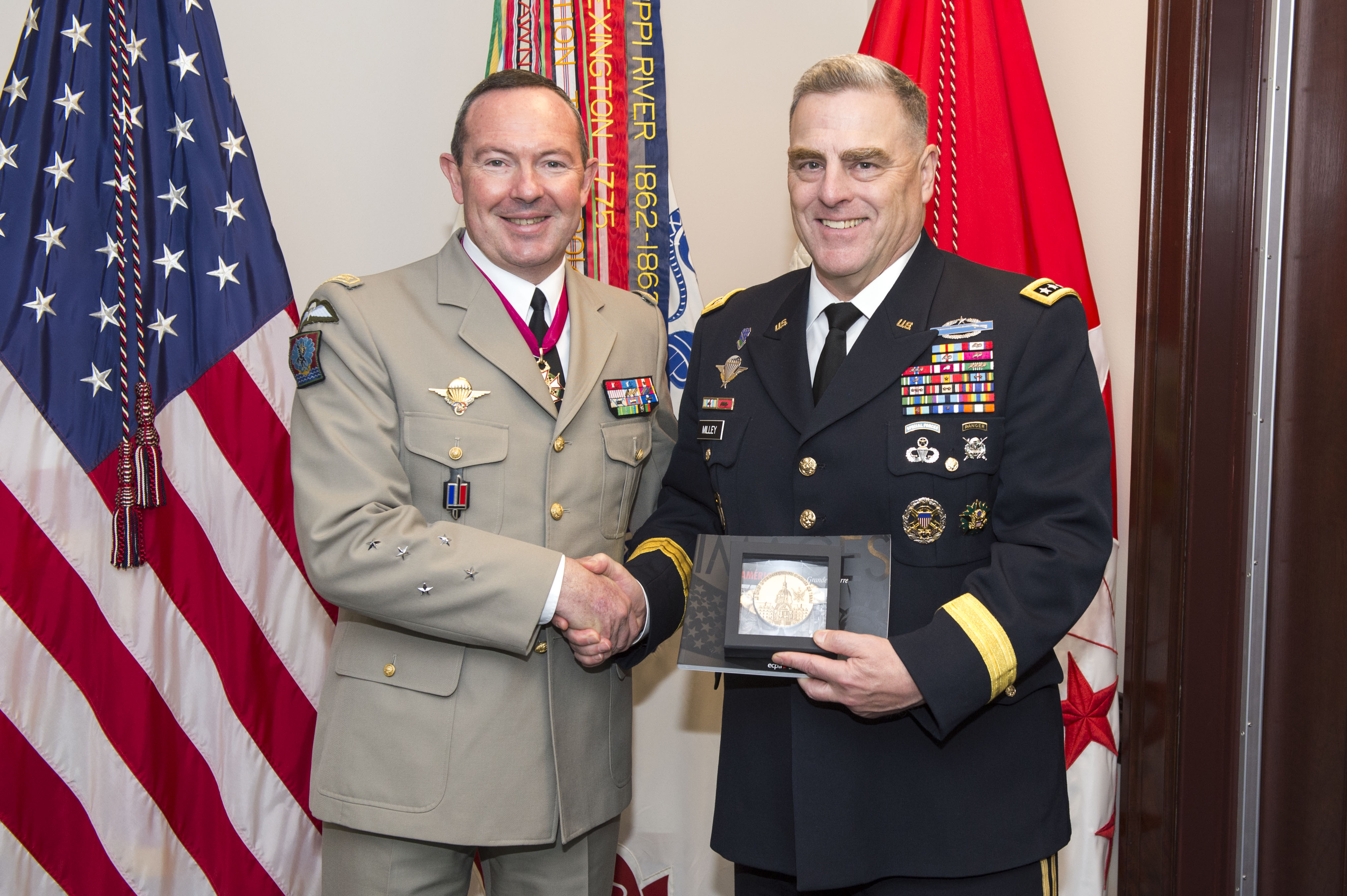 U.S. Army Chief of Staff, Gen. Mark A. Milley, hosts Gen. Jean-Pierre Bosser, Chief of Staff, French Army, during a counter-part visit in Arlington, Va., December 1, 2016. (U.S. Army photo by Sgt. 1st Class Chuck Burden)